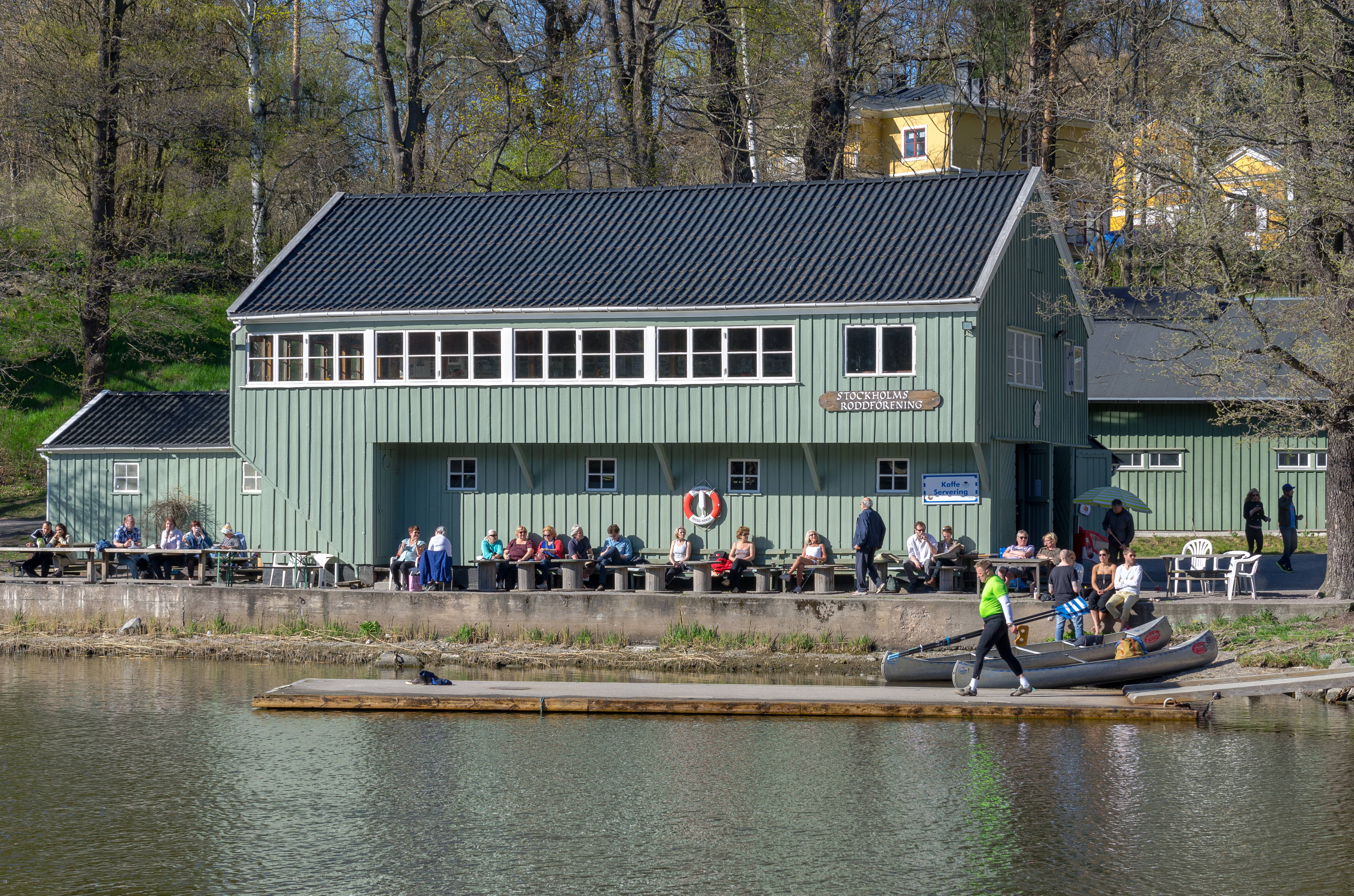 Stockholms roddförening (Stockholm Rowling club). Buit 1913. Architect Sigurd Lewerentz.